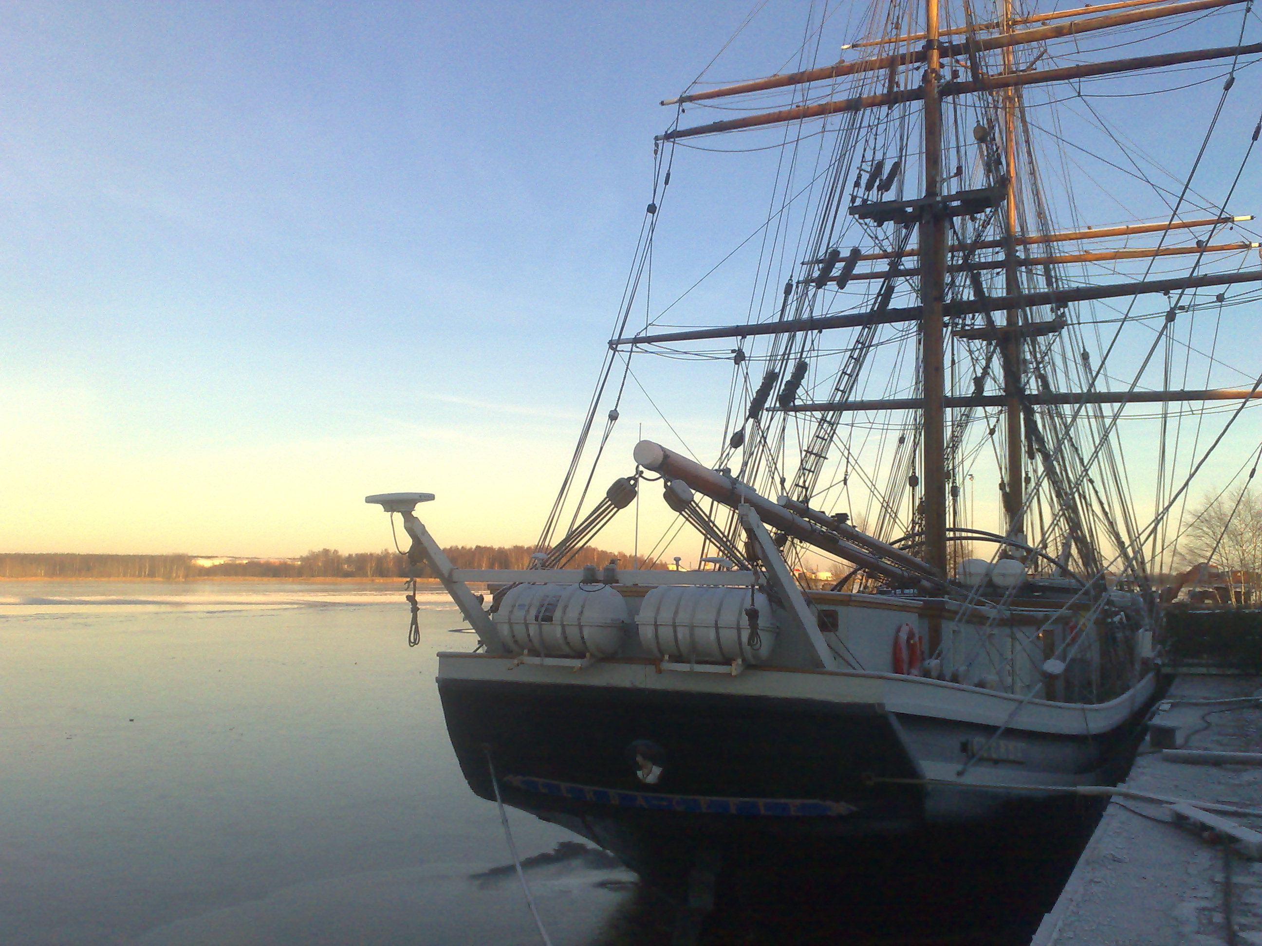 Briggen Gerda Ship Type: Brigg 1995-2005 Built by Gefle, Sweden Overall length: 49.00 m Length (hull): 36.15 m Breadth: 8.23 m Draught: 2.88 m Sail area: 625 m2 Ship's hull: Holz / Wood Main engine: Caterpillar 3406E, 545 Pk History Named: Gerda Gefle Registered port: Gävle Flag: Sweden